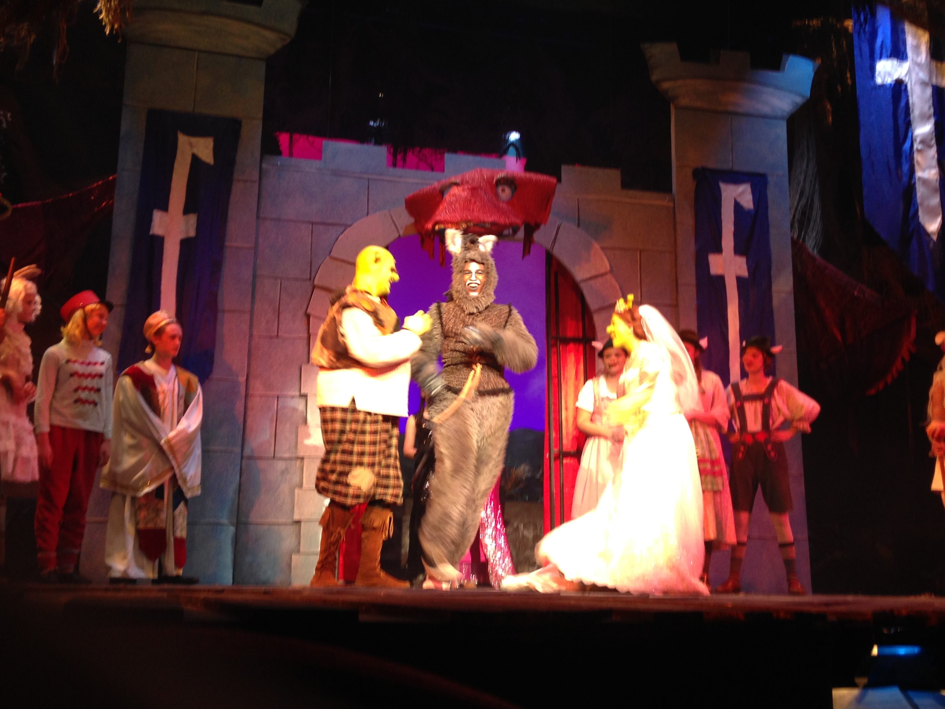 A picture of Mill Mountain Theatre's production of Shrek JR. Taken 8 April 2018.